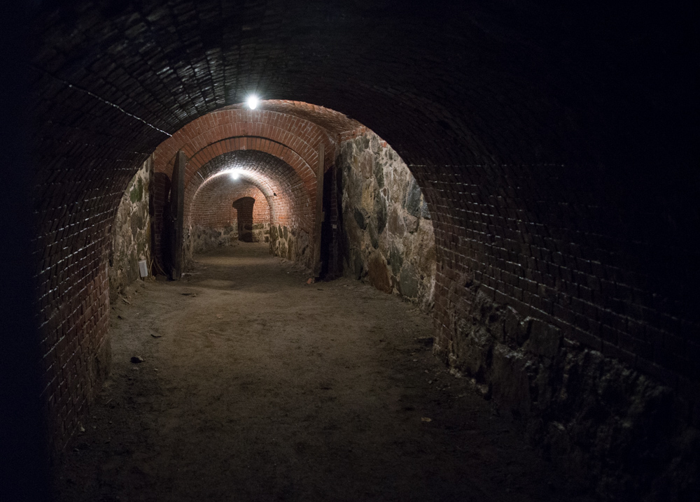 Underground the Oscarsborg fortress